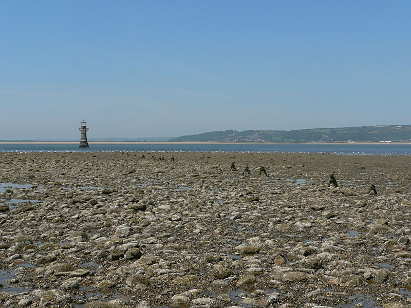 Whiteford Lighthouse, Gower, Wales, UK